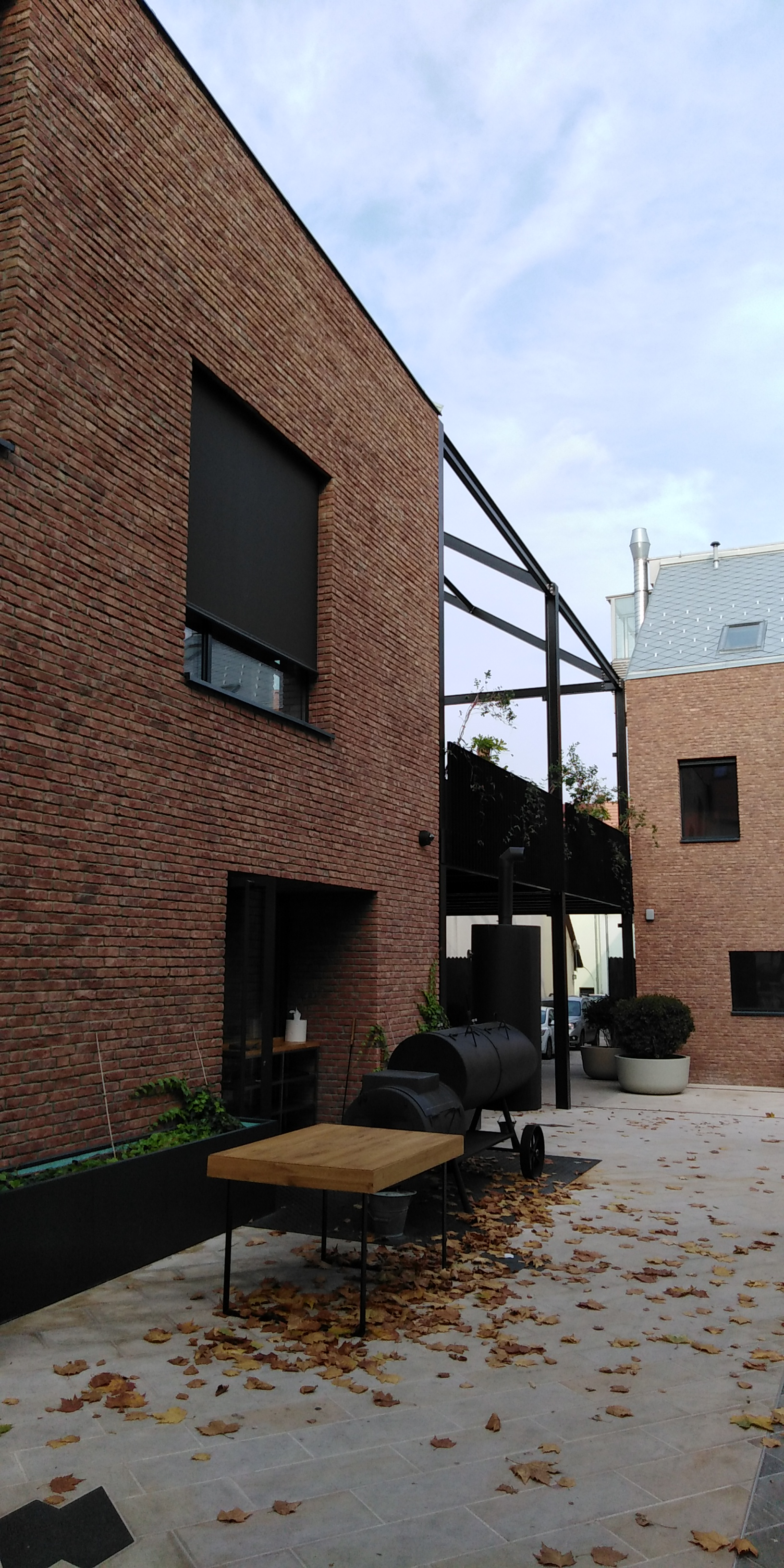 Slovakia - Trnava - Little Berlin